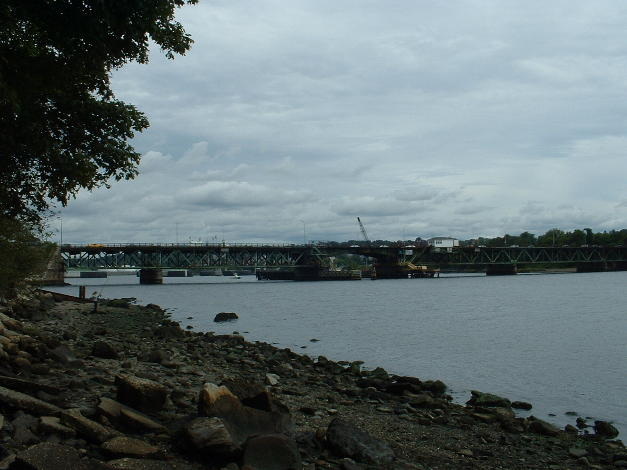 The Brightman Street Bridge, as seen from the southwest. The crane seen in the background is working on the replacement for the bridge.